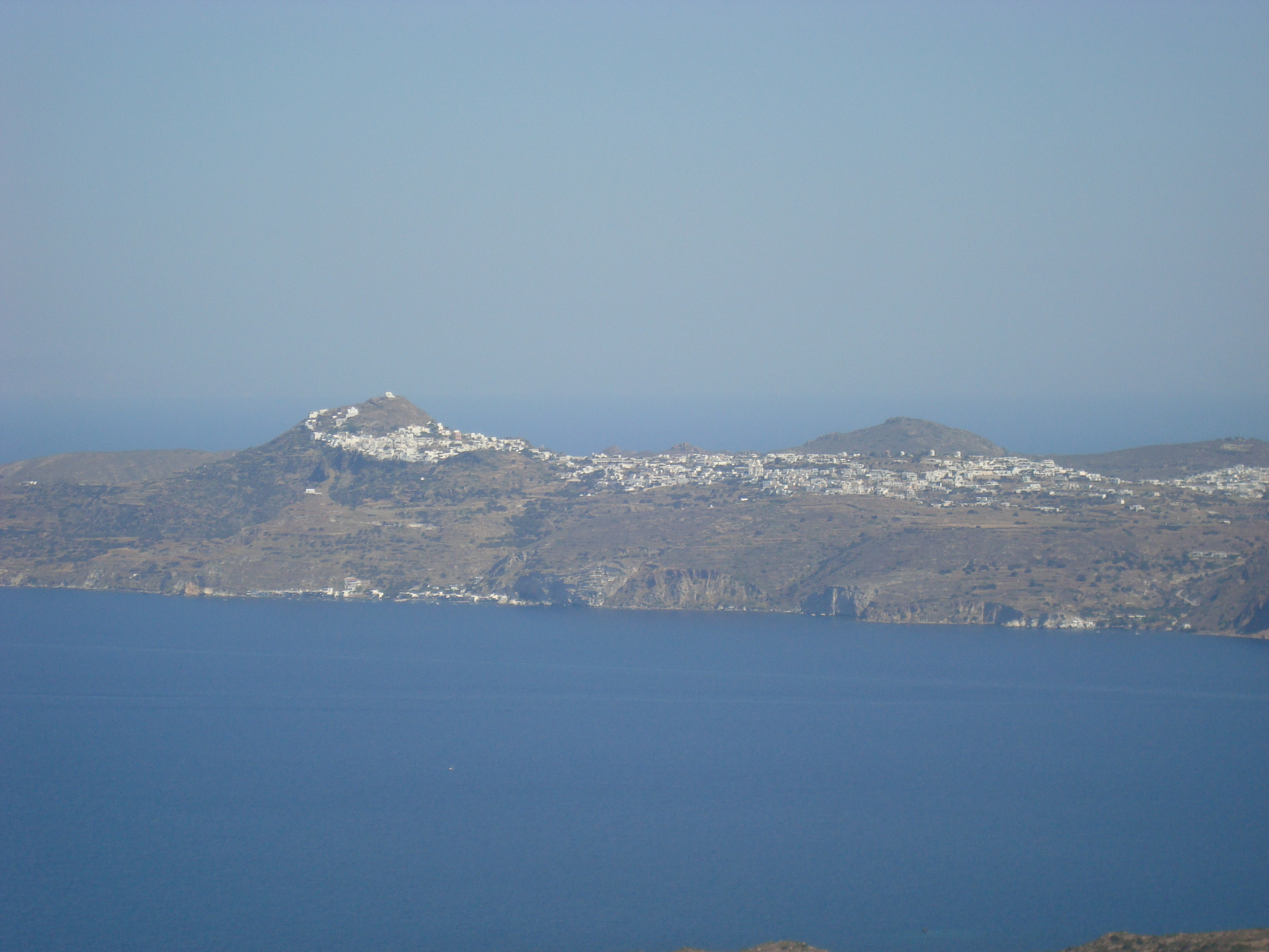 Milos Island in August 2014. Plaka and Trypiti.